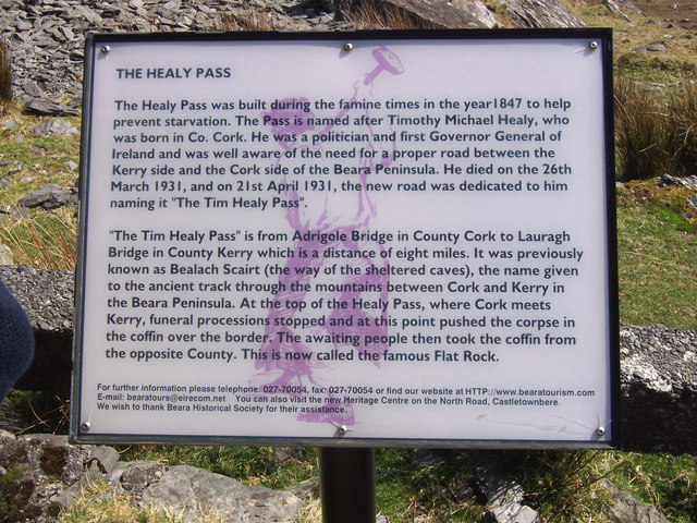 The Story of the Healy Pass Bere Peninsula The history behind the roadway.